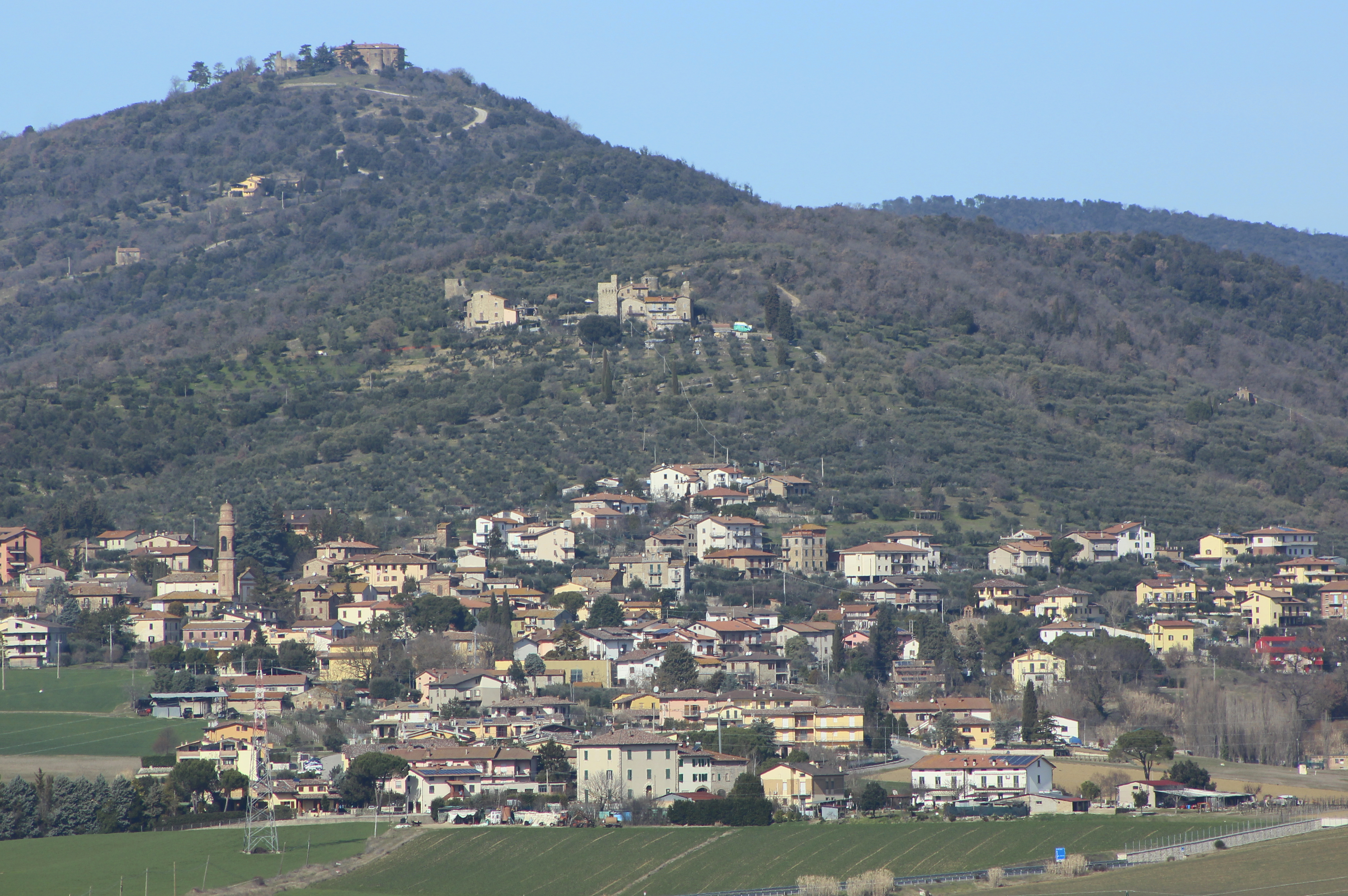 Fontignano, hamlet of Perugia, Umbria